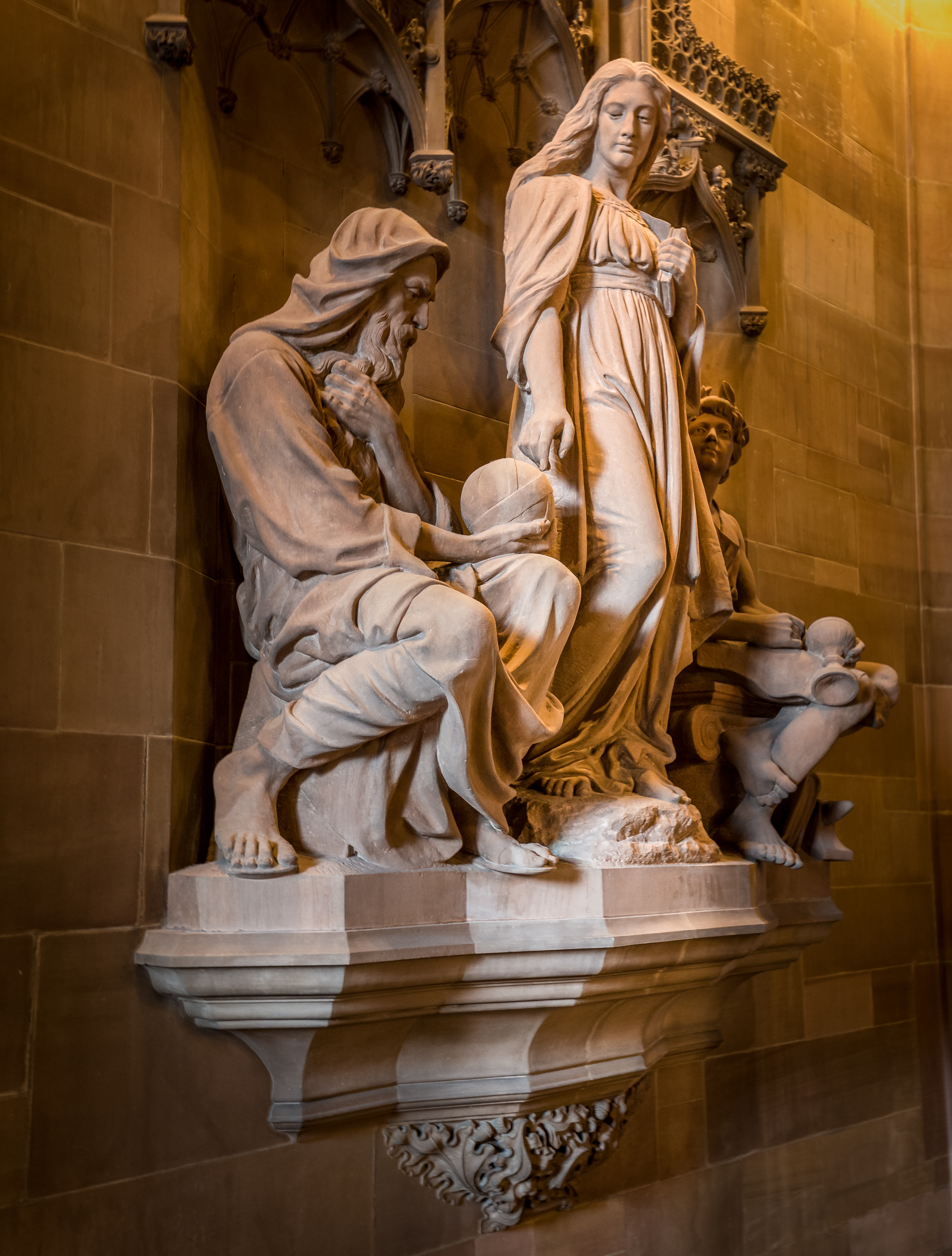 Theology, Science and Art; by John Cassidy; John Rylands Library ground floor Wikidata has entry Q1236267 with data related to this item.